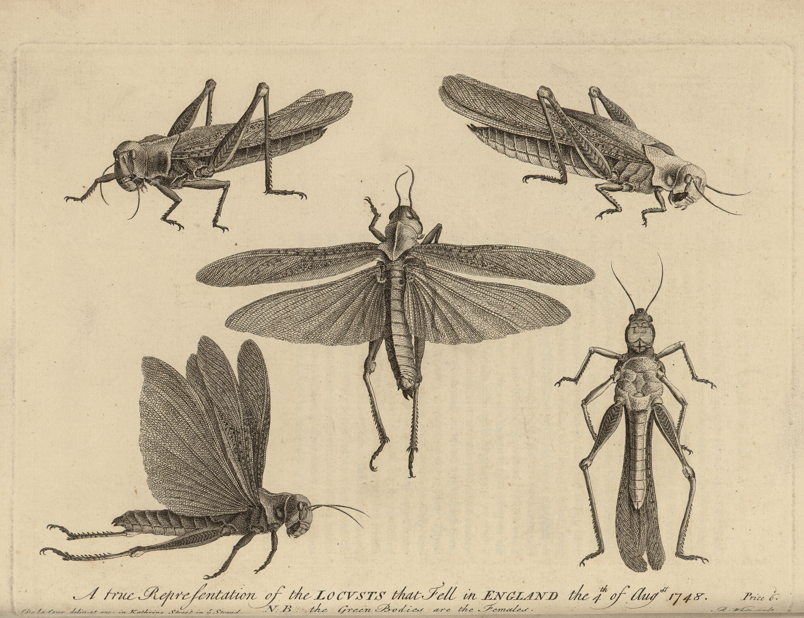 An image from a set of 8 extra-illustrated volumes of A tour in Wales by Thomas Pennant (1726-1798) that chronicle the three journeys he made through Wales between 1773 and 1776. These volumes are unique because they were compiled for Pennant's own library at Downing. This edition was produced in 1781. The volumes include a number of original drawings by Moses Griffiths, Ingleby and other well known artists of the period. Thomas Pennant (1726-1798)